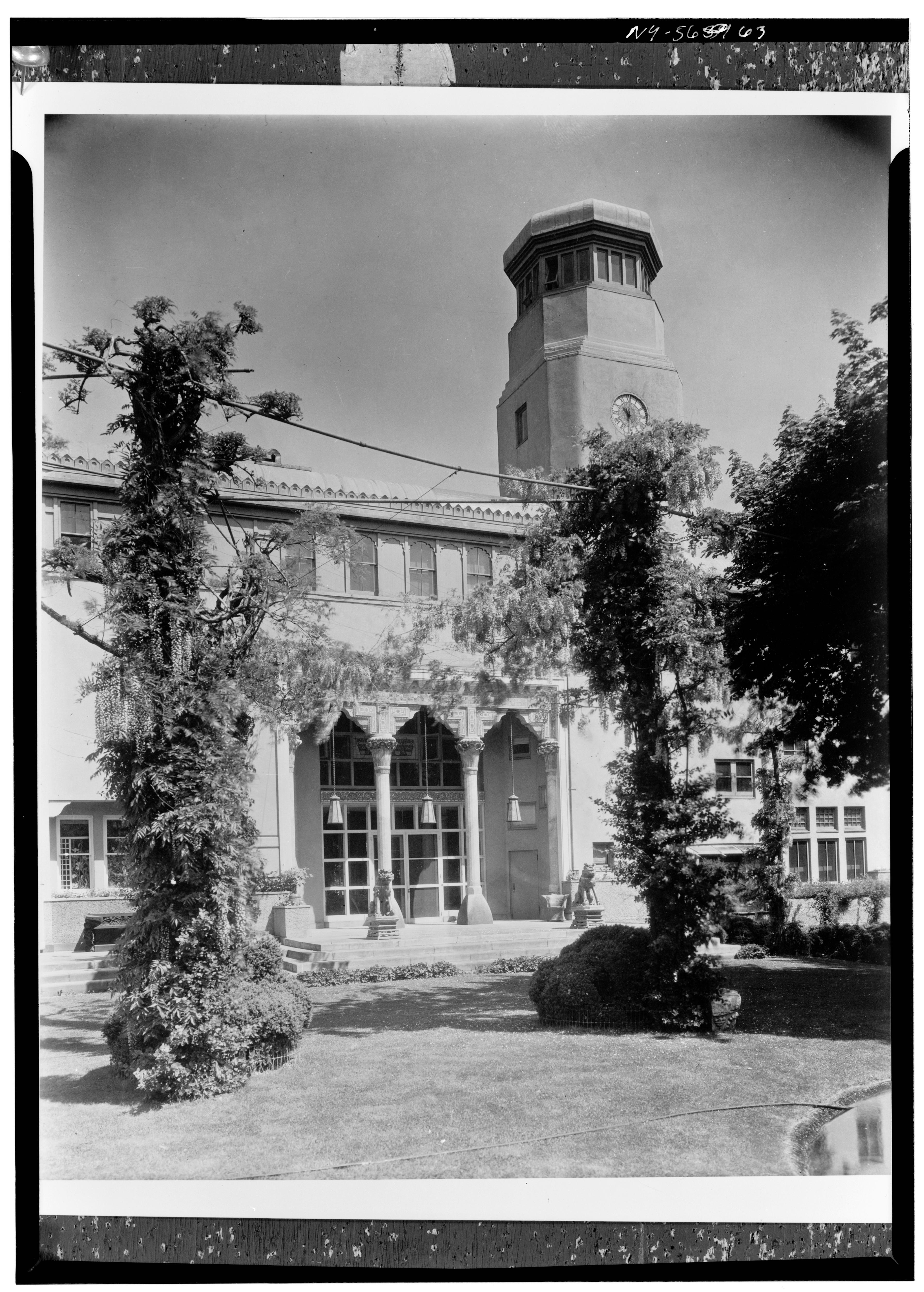 Front facade of Laurelton Hall (Demolished) formerly at Laurel Hollow & Ridge Roads, Oyster Bay, Nassau County, NY Residence of Louis Comfort Tiffany Built 1905 - Burned/demolished 1957 From the Historic American Buildings Survey at the Library of Congress. David Aronow, Photographer circa 1924